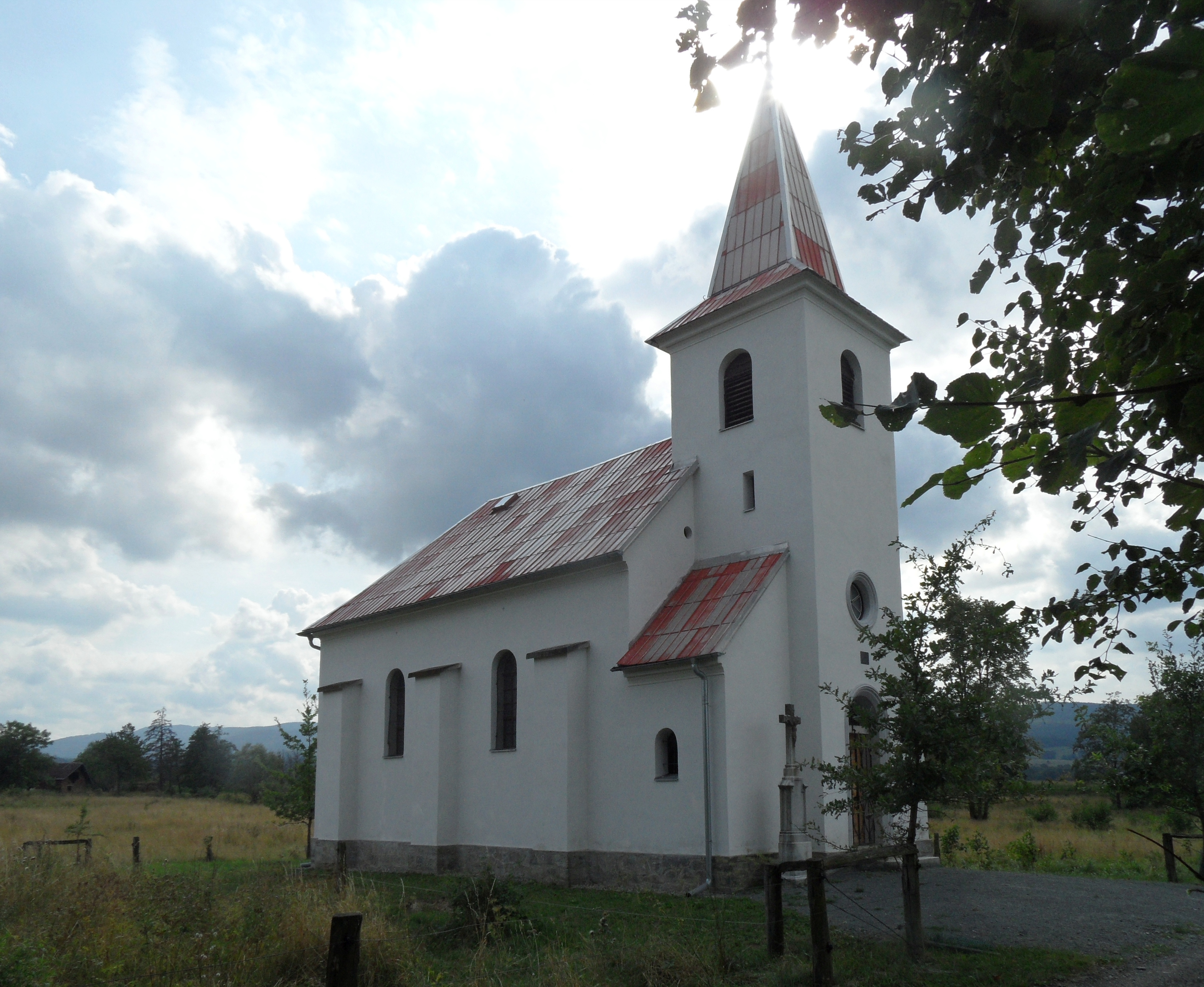 Dolni Les: Church of the Immaculate Conception, View from North-East. Jeseník District, the Czech Republic.